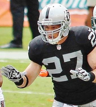 The Miami Dolphins vs the Oakland Raiders.